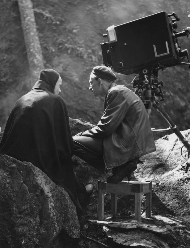 Photograph of actor Bengt Ekerot and director Ingmar Bergman during the principal photography of The Seventh Seal.